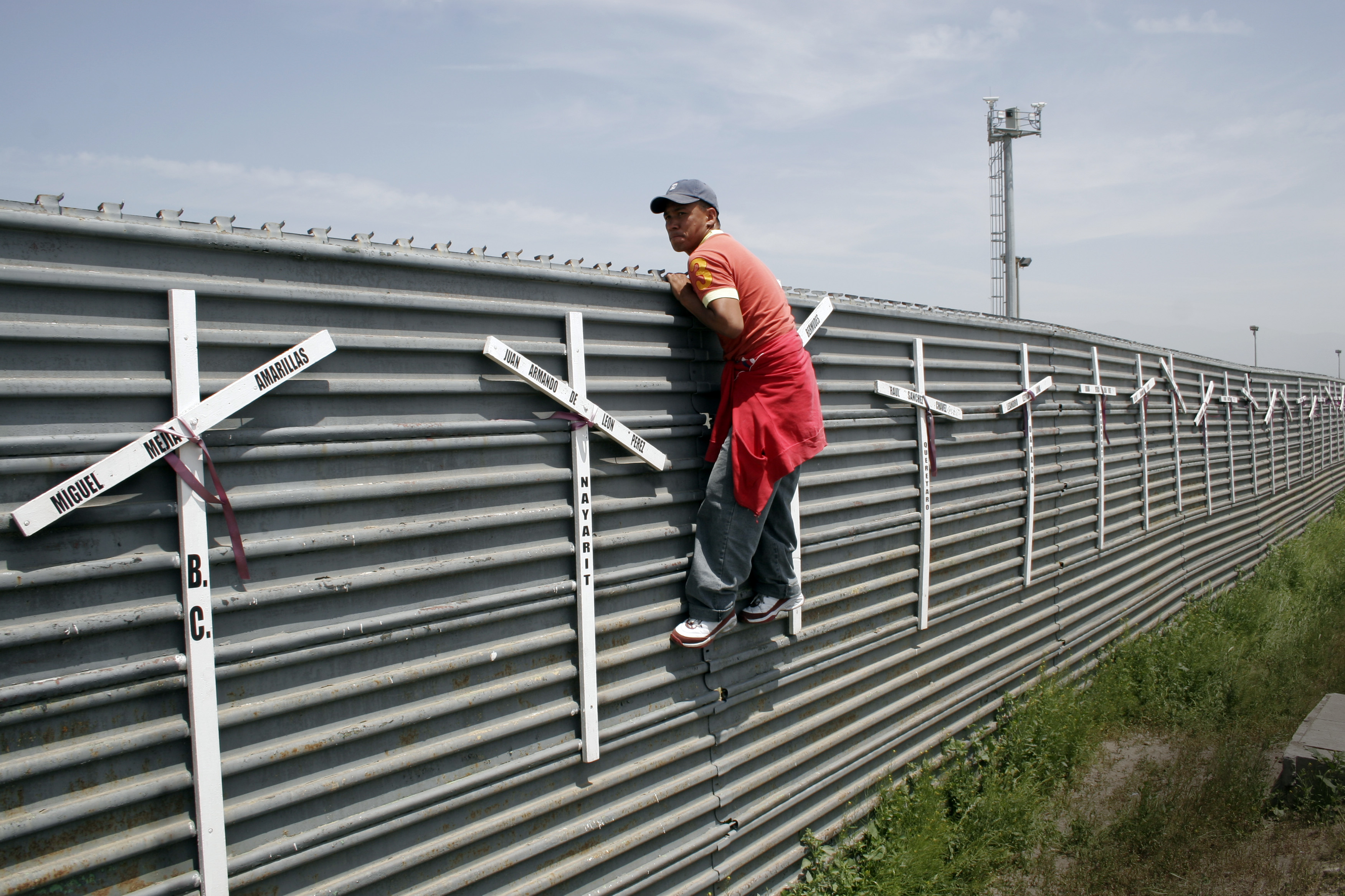 Aspiring migrant from Mexico into the US at the Tijuana-San Diego border. The crosses represent the deaths of failed attempts.